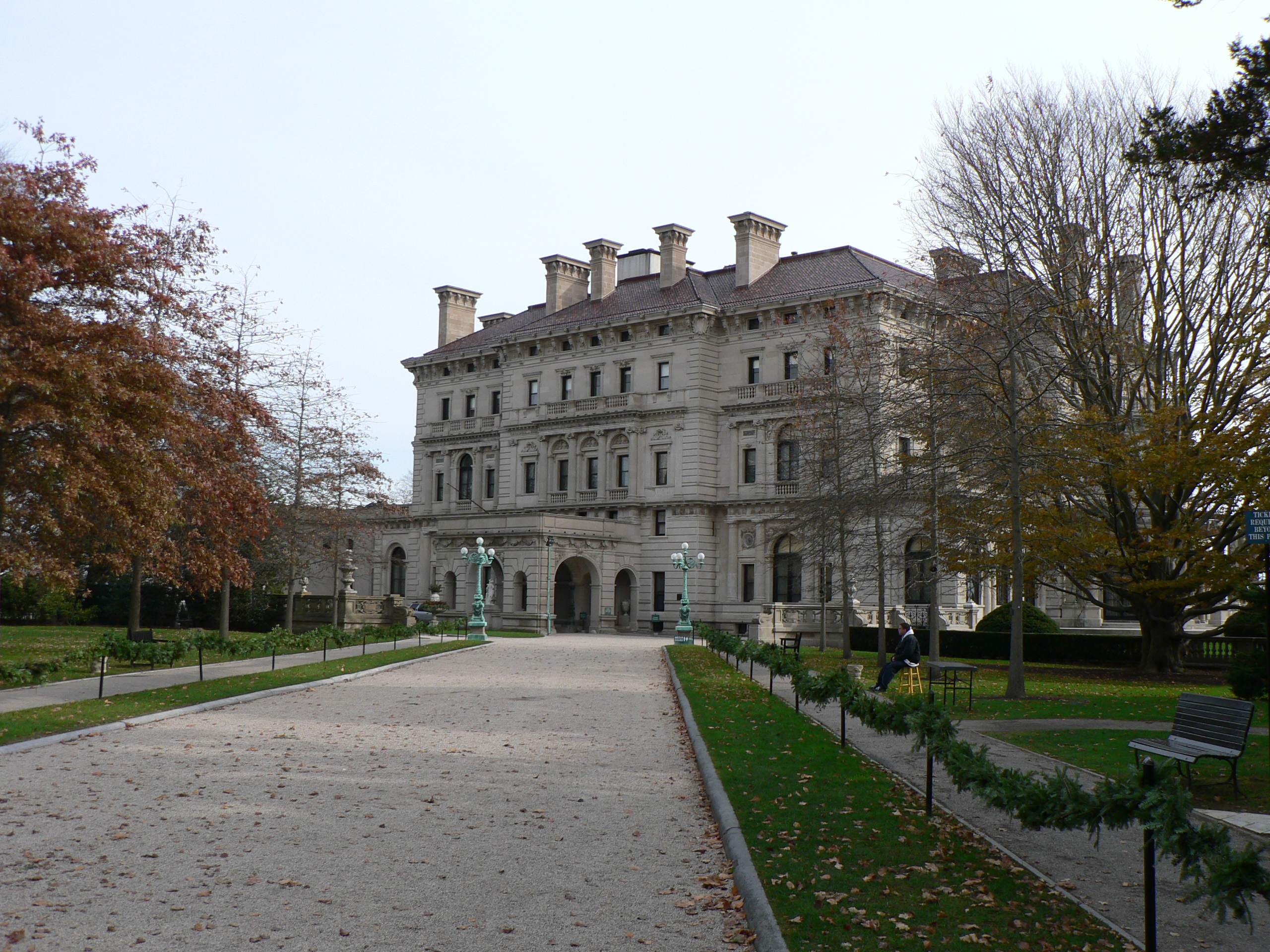 View of The Breakers — from the Ochre Point Avenue entrance driveway, in Newport, Rhode Island.